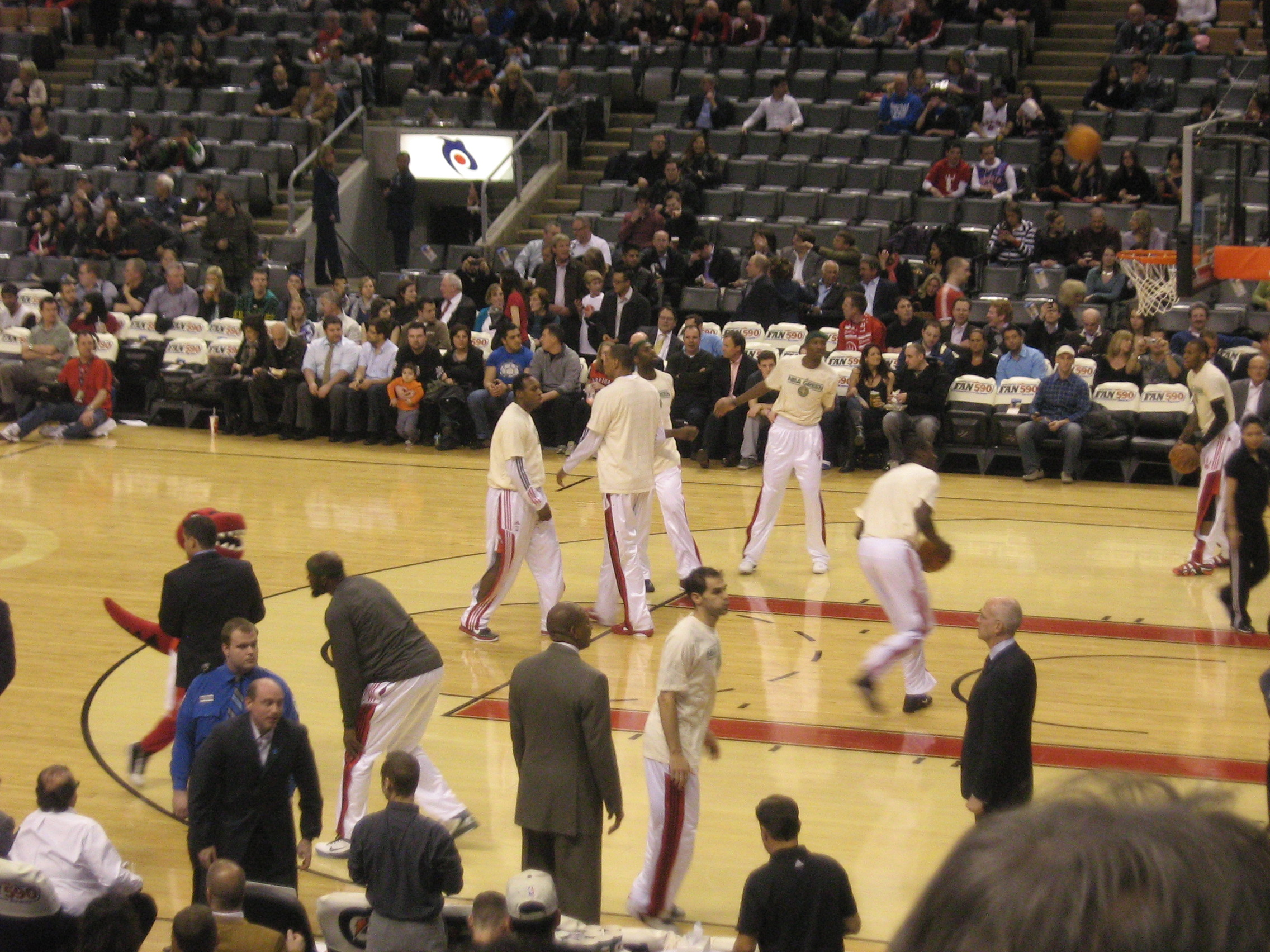 Raptors during worm up before cvaliers game 104-96, Toronto, Wednesday, April 6, 2011